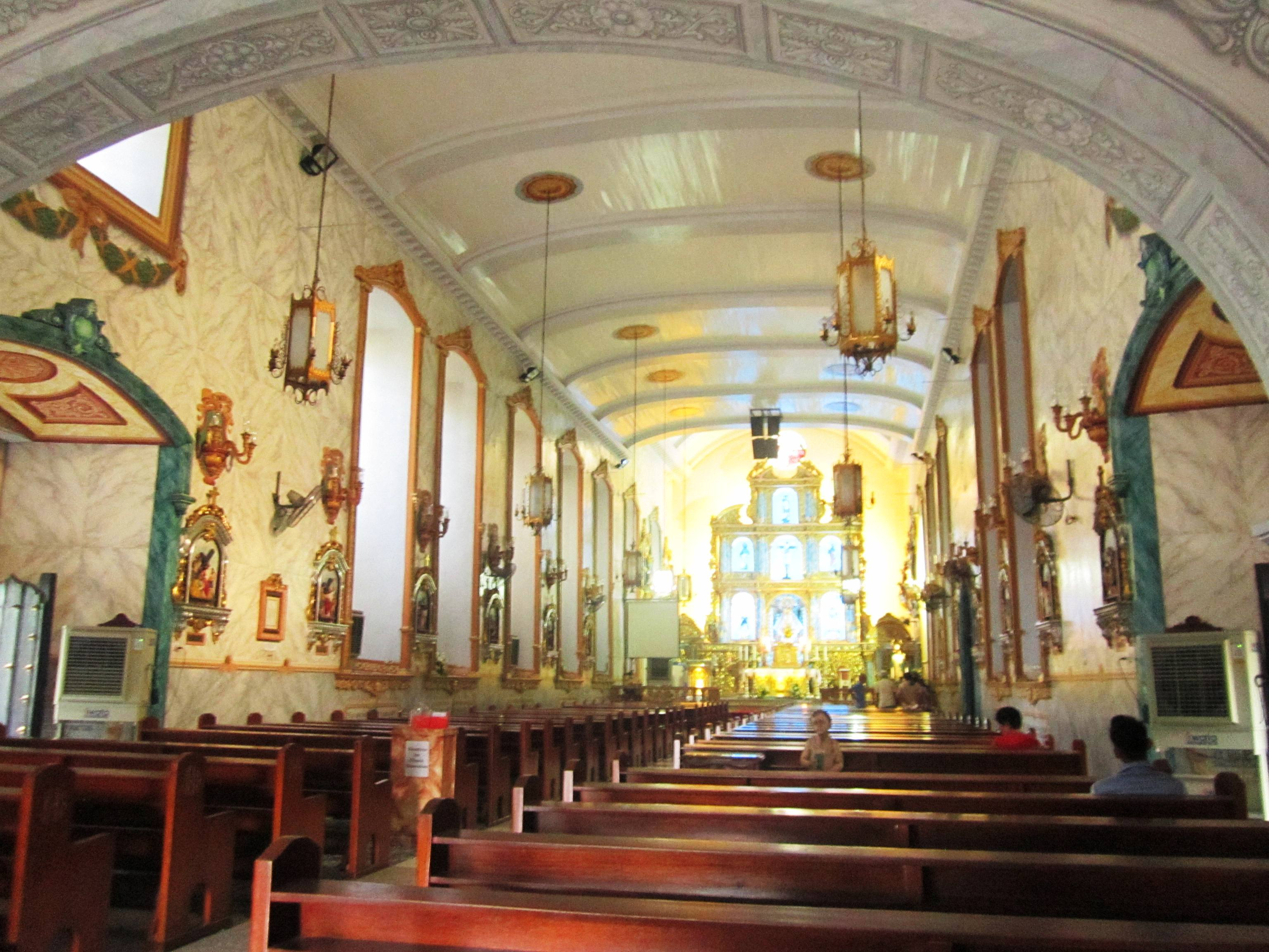 The Poblacion Church houses an altar with its carved retablo.